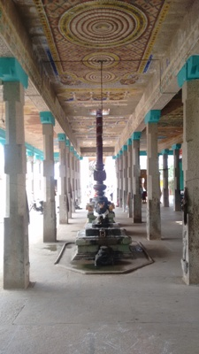 Konerirajapuram umamaheswarar temple கோனேரிராஜபுரம் உமாமகேஸ்வரர்கோயில்